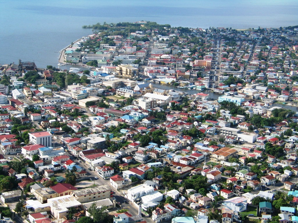 Southeastern aerial view of Belize City